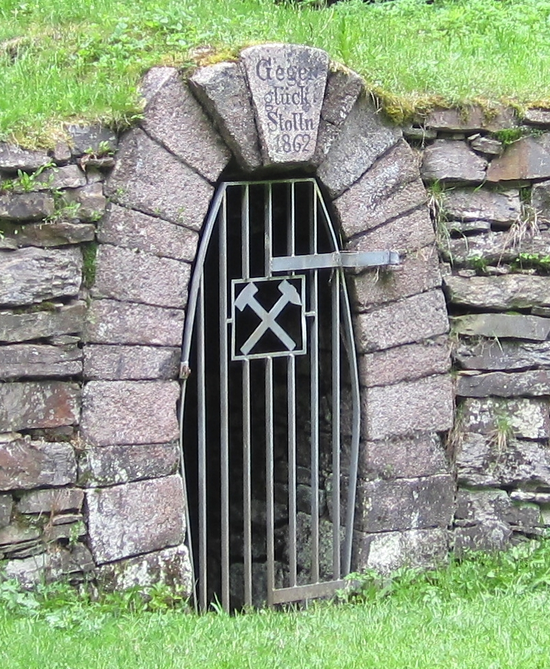 Adit mouth of "Gegenglueckstolln". Jugel, city of Johanngeorgenstadt, Saxony, Germany.